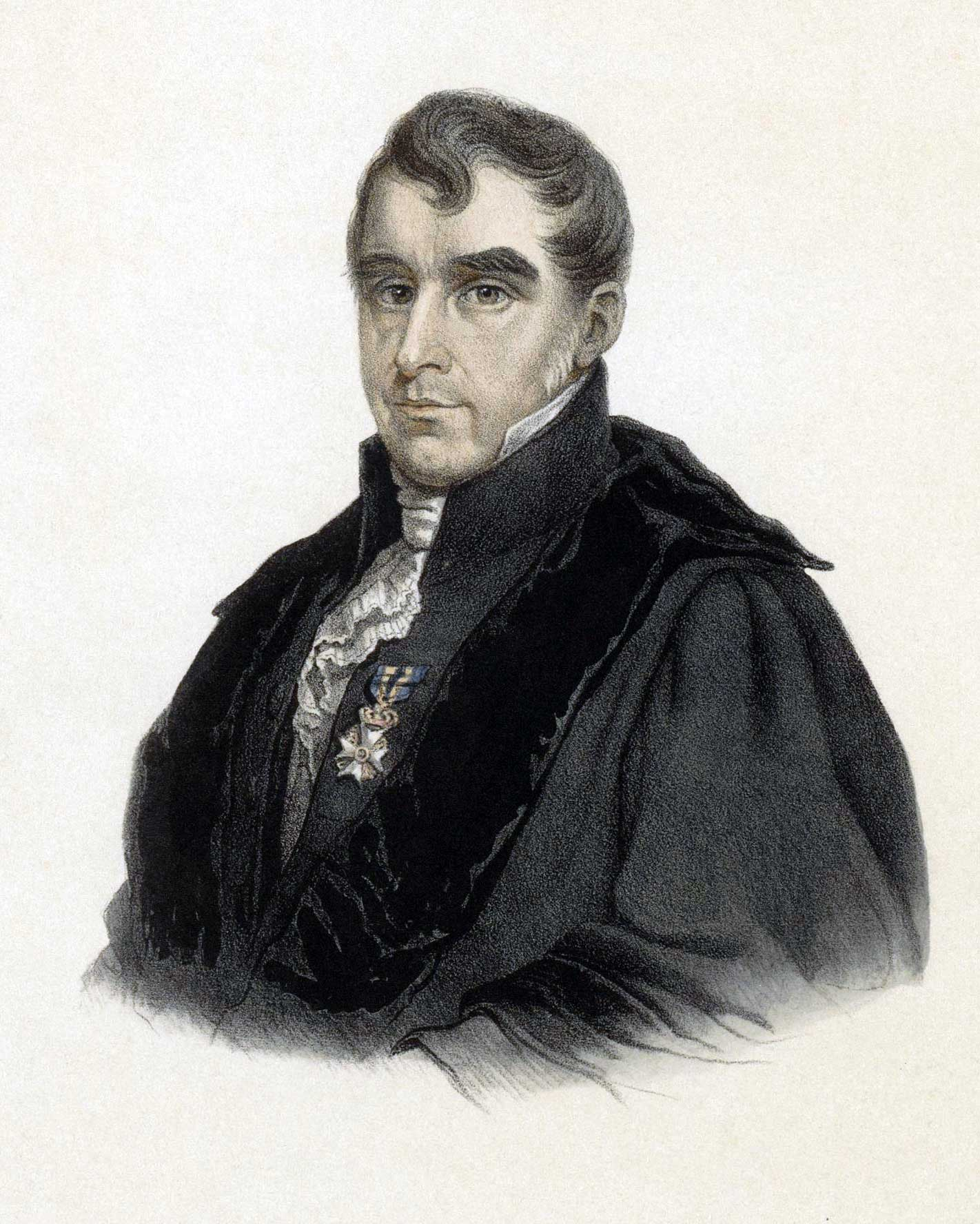 Gerard Sandifort (1779-1848) Dutch physician